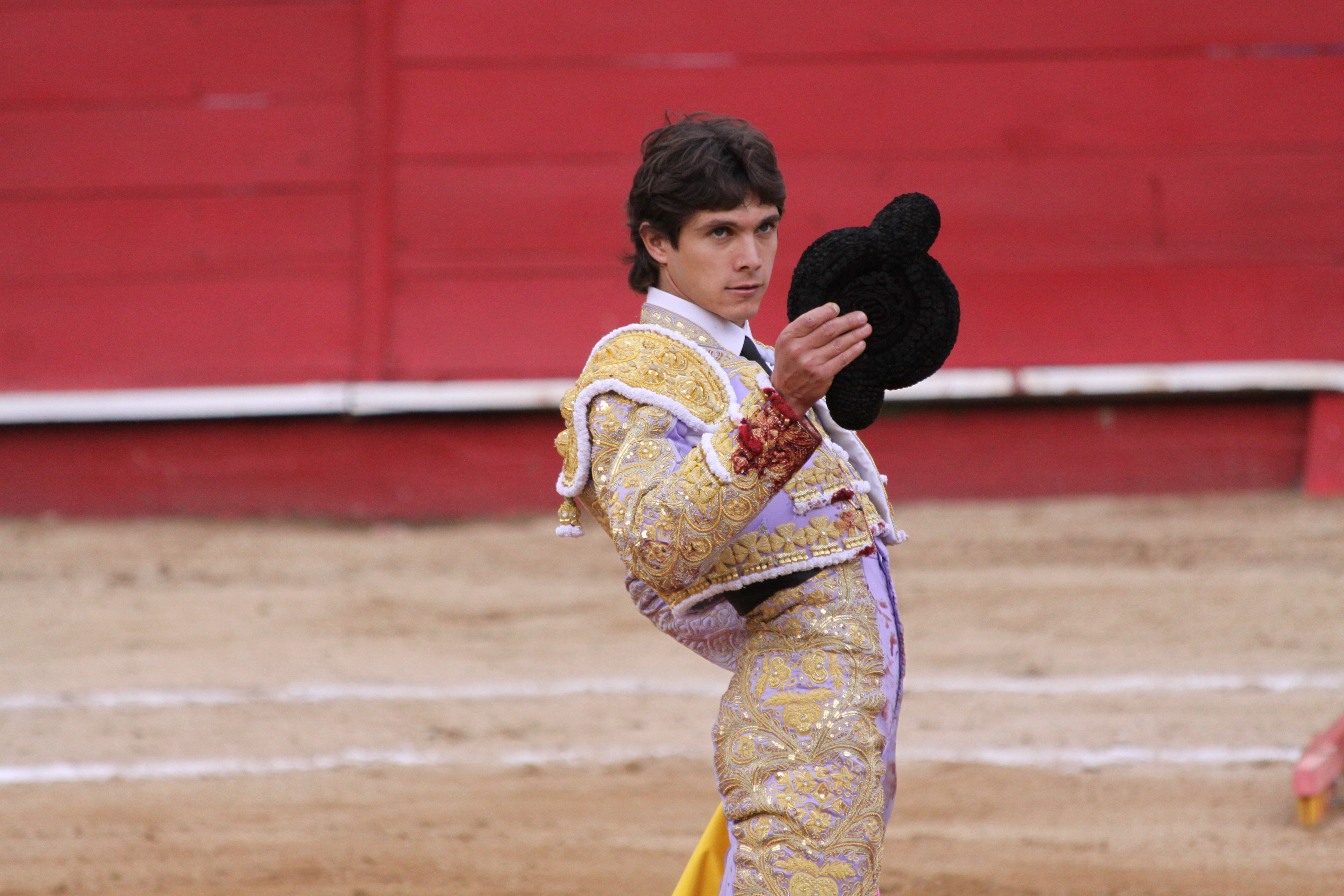 Sebastián Castella, french bullfighter. 2009